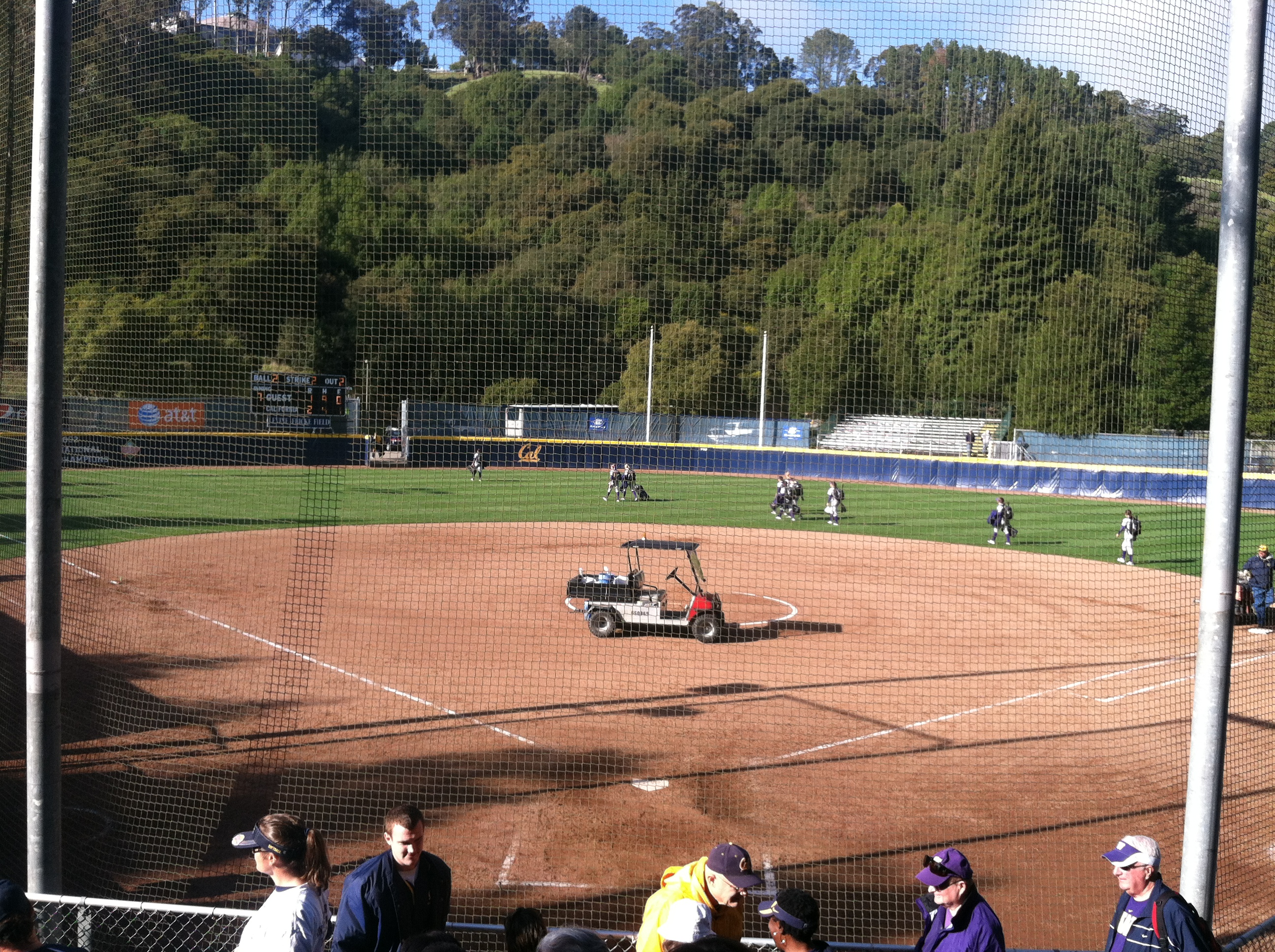 Photo of Levine-Fricke Field, home of the California Golden Bear softball team. It was taken on 3/30/2012 after a game against the Washington Huskies.